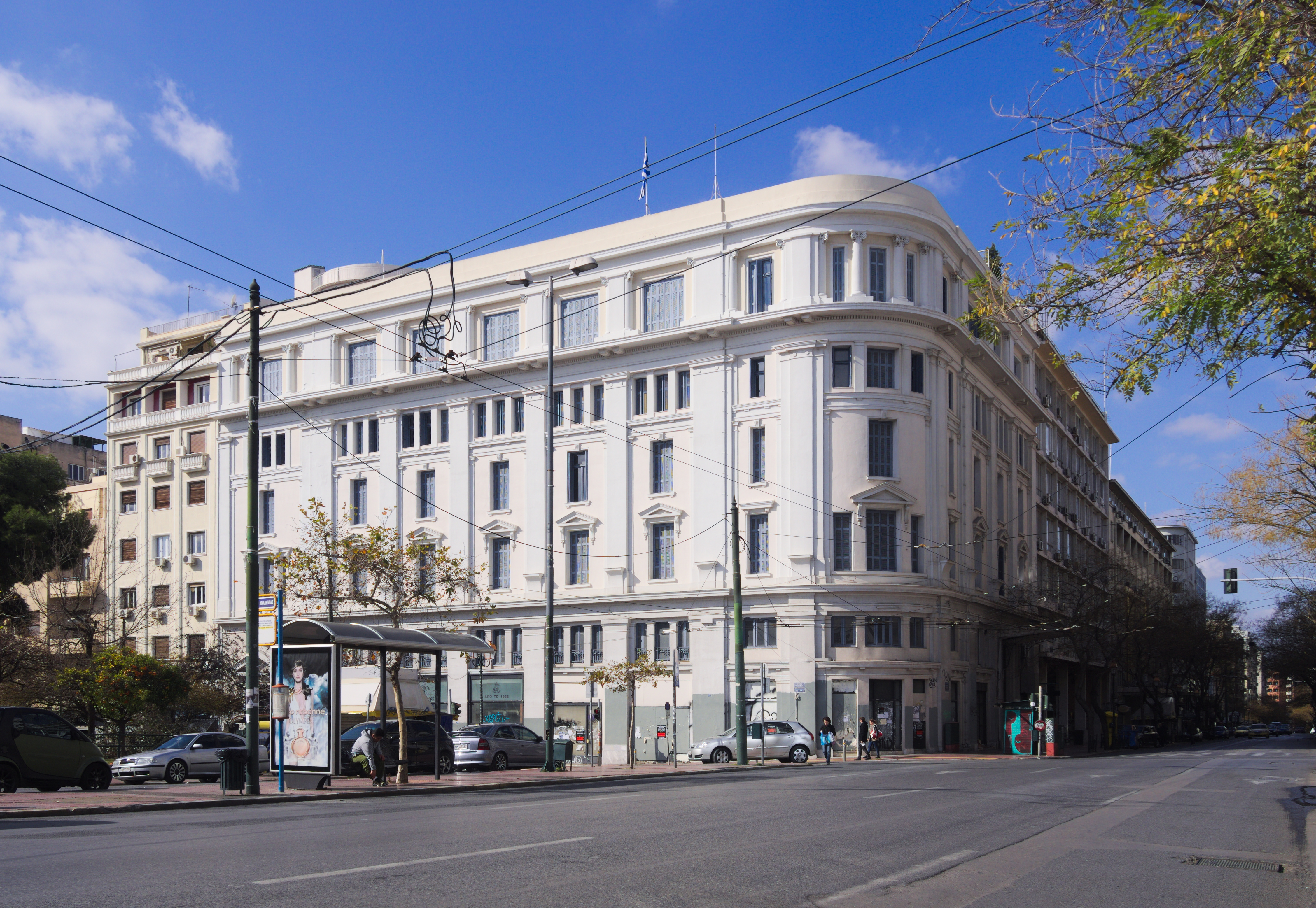 The university club of the University of Athens. The building is located at Ippokratous 15 and Akadimias. Designed by Alexandros Nikoloudis (1874-1944), it was built in 1926-1930.